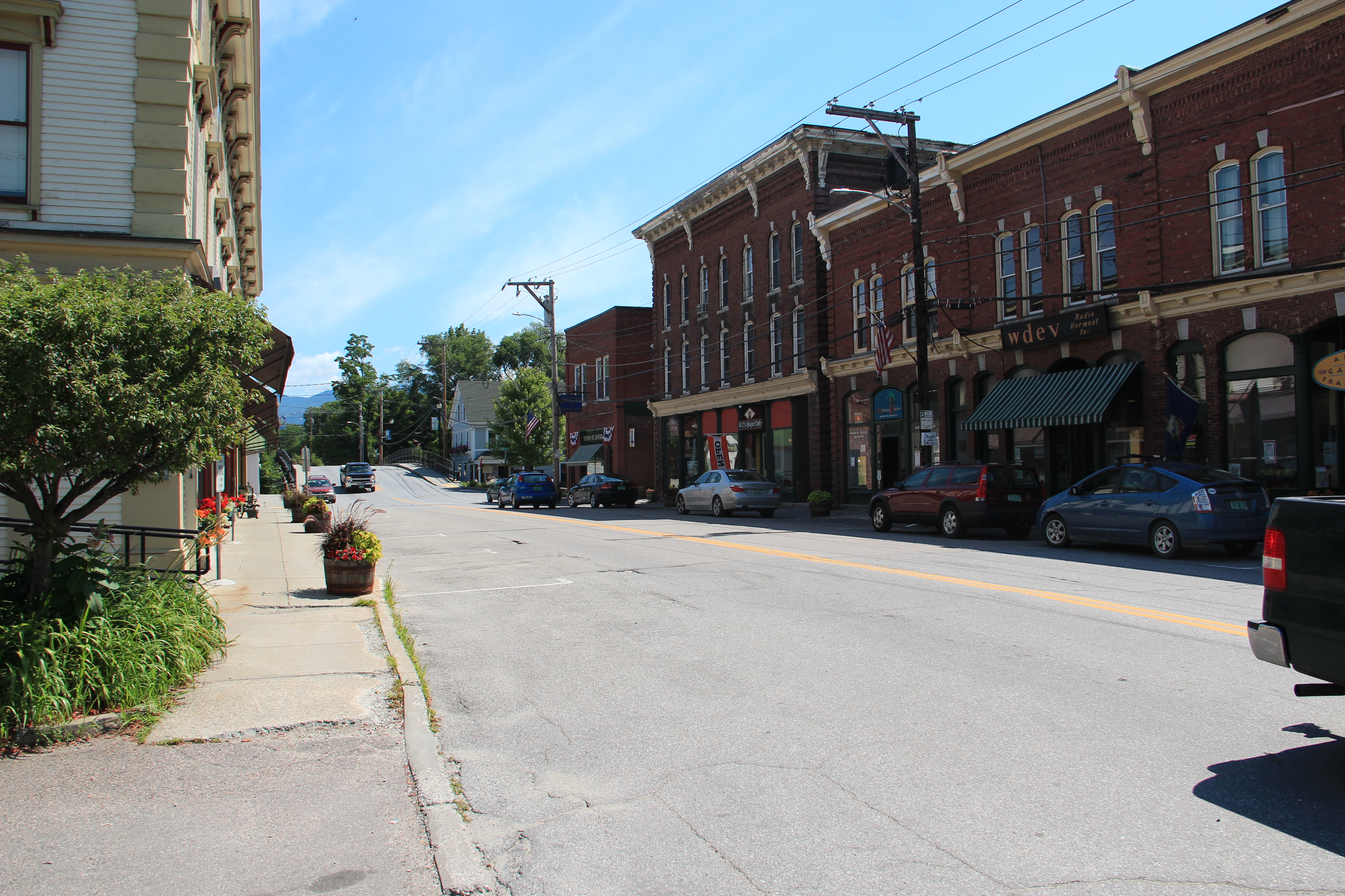 Downtown Waterbury, Vermont.